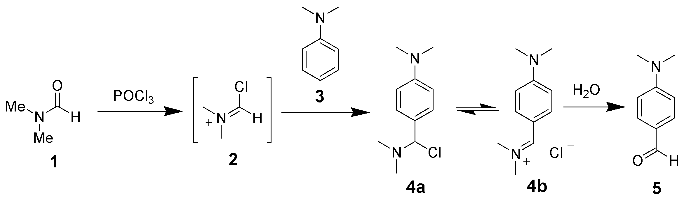 Description: Reaction scheme of the Vilsmeier-Haack reaction. Author, date of creation: selfmade by ~K, 03 September 2006. Source: - Copyright: Public domain. (PD) Comments: high-resolution b/w PNG; ChemDraw / The GIMP.